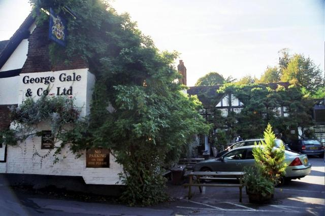 The Bull, Sonning. A lovely, very traditional, pub in the extremely well-heeled village of Sonning.